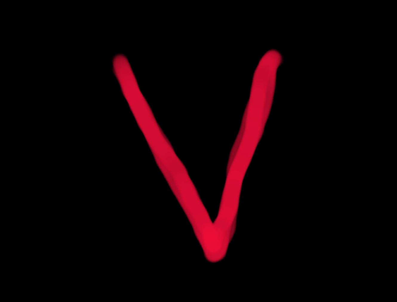 Drawn TV-series V mark